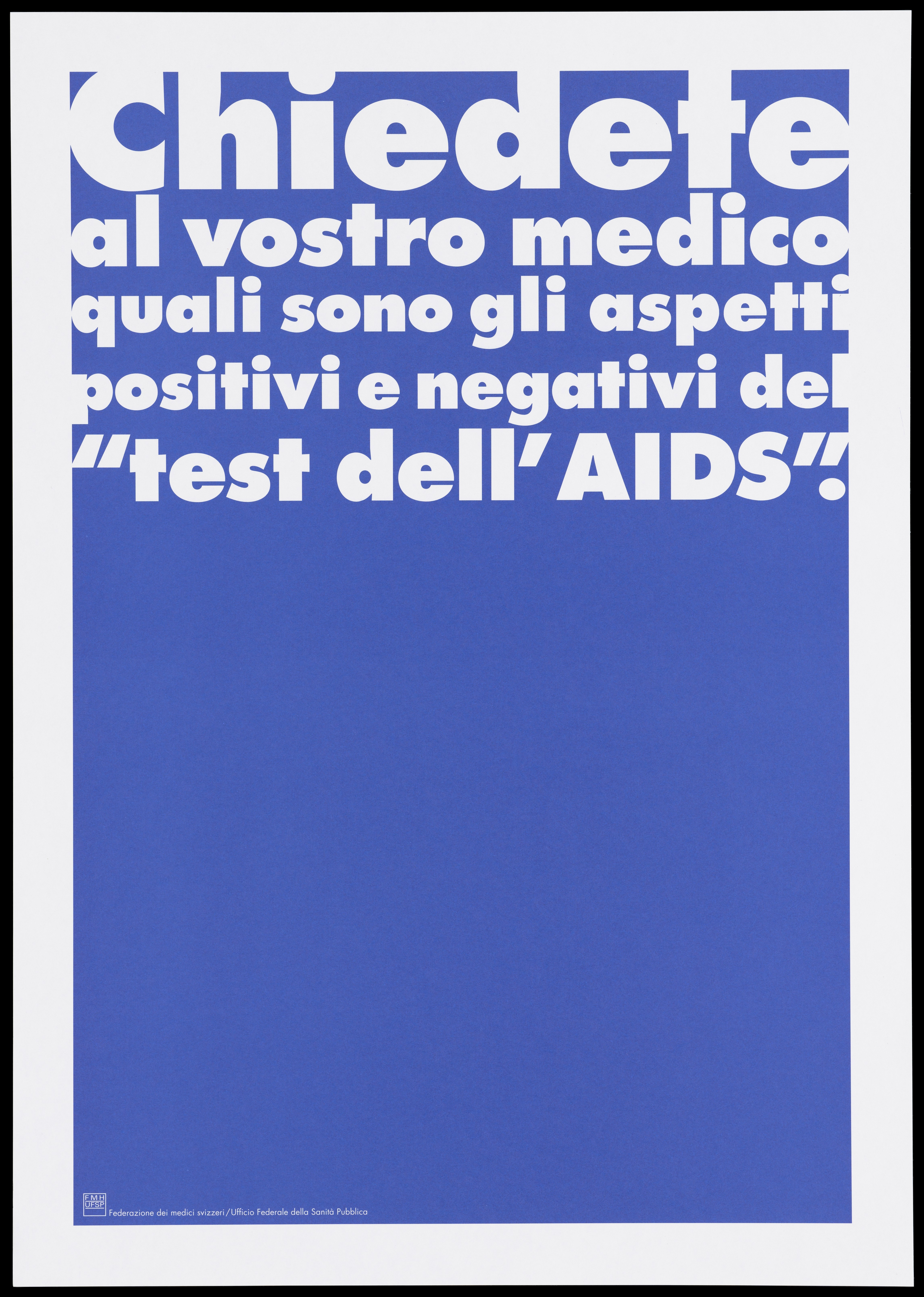 A dark blue background bearing the white lettering: "Chiedete al vostro medico quali sono gli aspetti positivi e negativi del "test dell' AIDS" [Ask your doctor what are the pros and cons of the "test of 'AIDS]; an advertisement by the Swiss Physicians [FMH] and Swiss Federal Office of Public Health [UFSP]. Colour lithograph. Iconographic Collections Keywords: AIDS; AIDS Posters; Market; AIDS poster